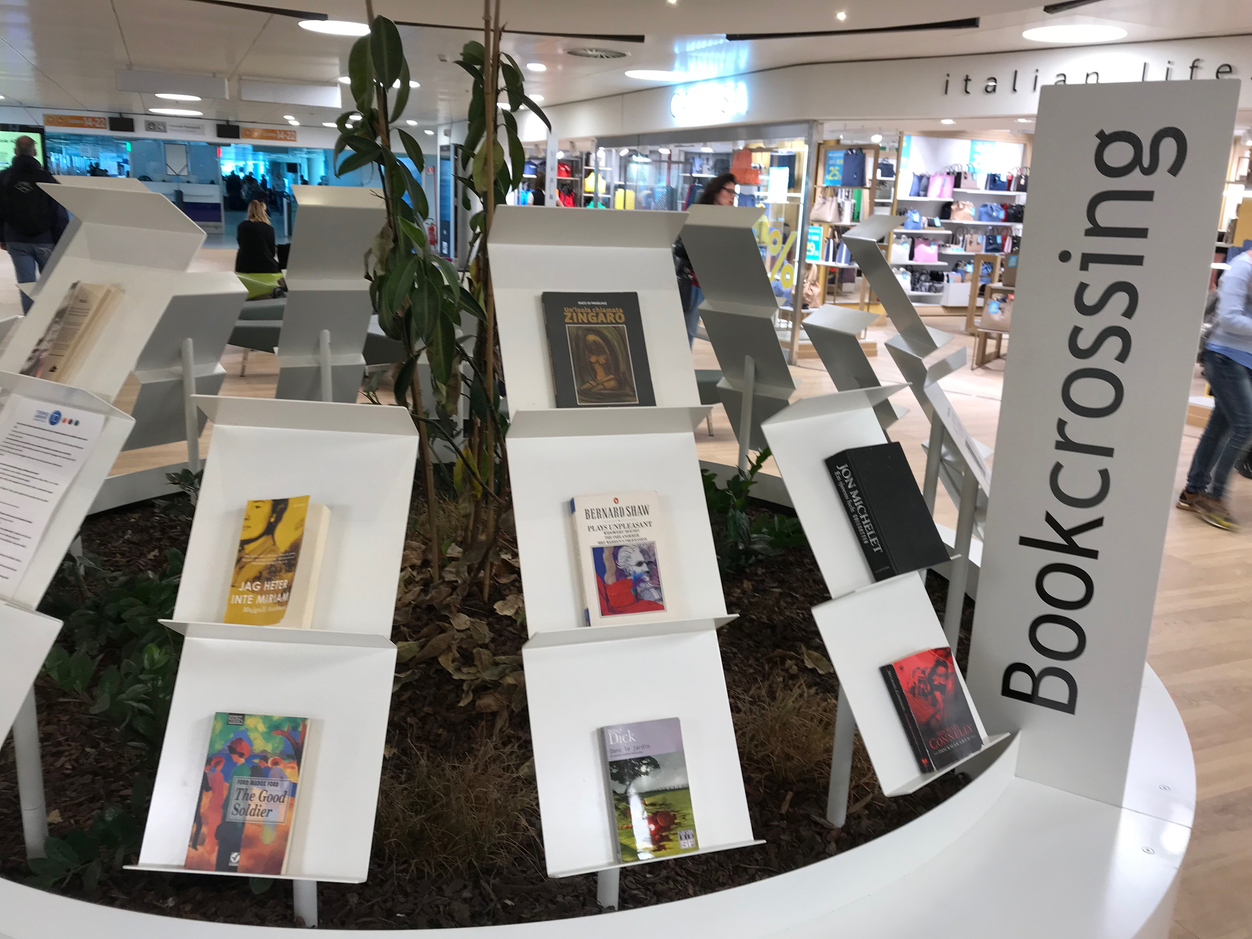 Book crossing at Turin airport (Italy)